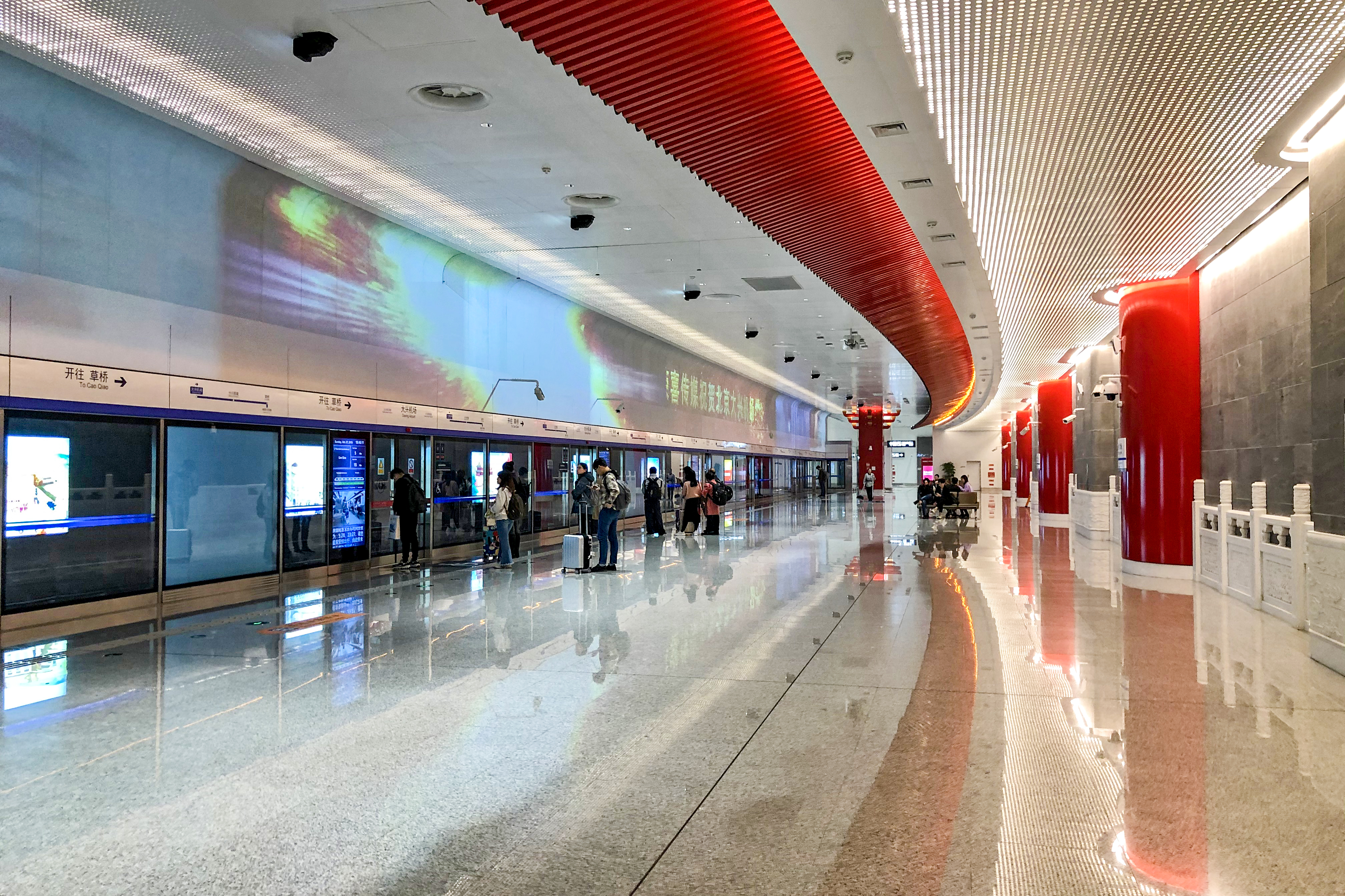 Projection above the platform screen doors.